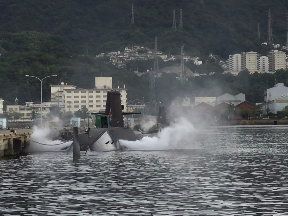 submarine recharging (Japan Maritime Self Defence Force) Oyashio-class submarine & Sōryū-class submarine